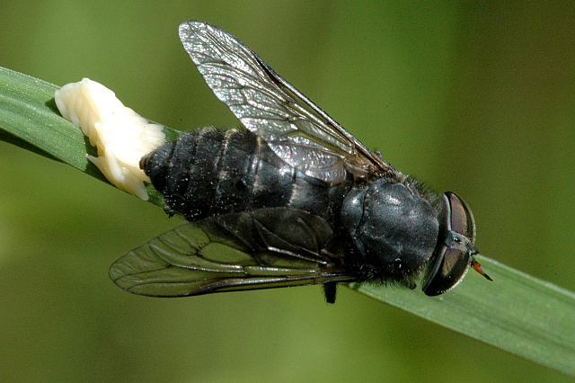 Picture taken in Commanster, Belgian High Ardennes . Species: female Hybomitra micans, laying eggs